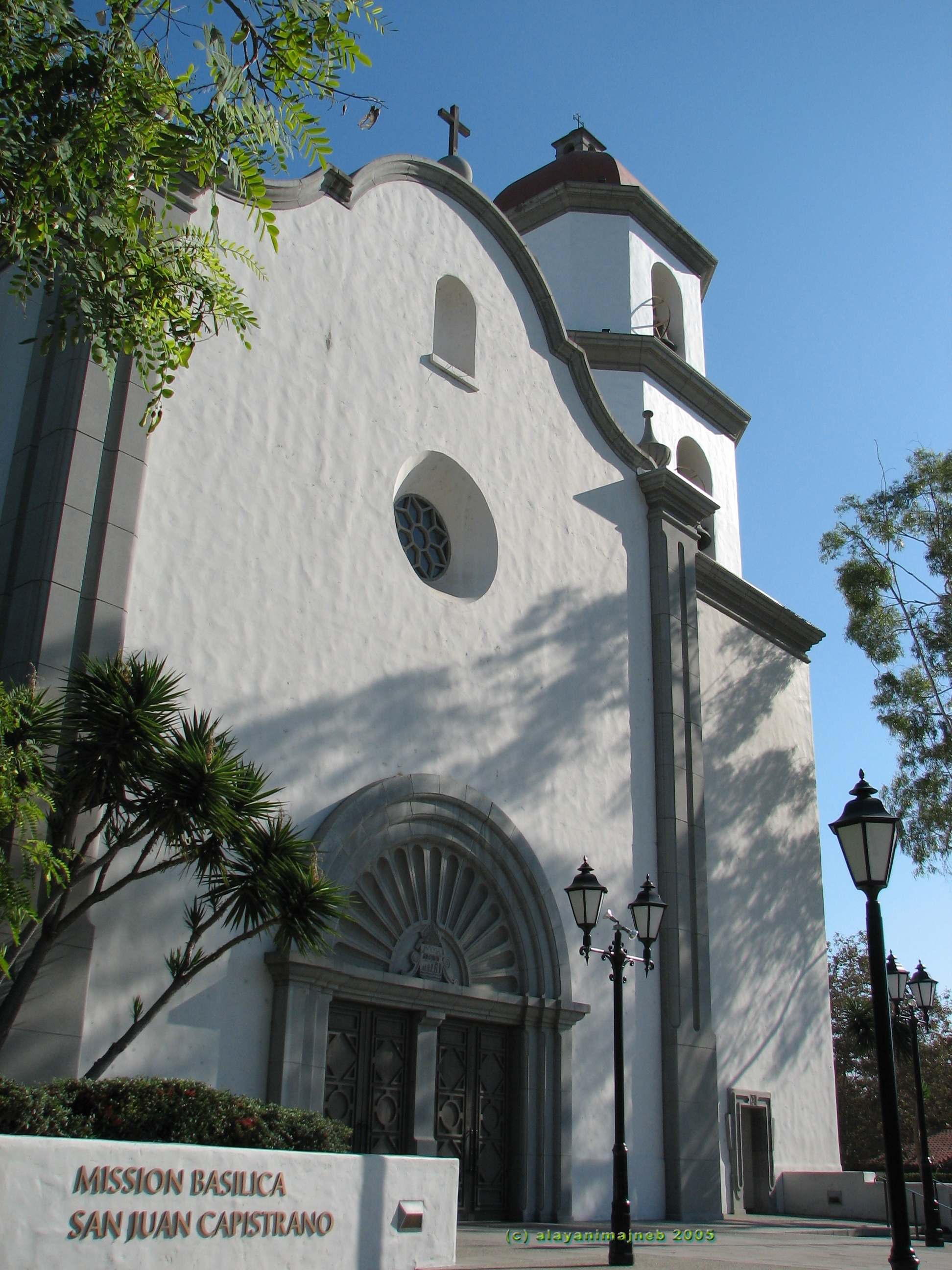 Front view of the Mission Basilica, in the City of San Juan Capistrano, California. Author: BEN AYALA SR. Camera: Canon Powershot S2 IS